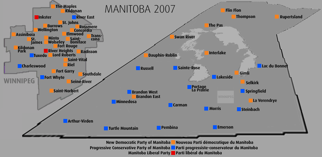 Diagram of riding-by-riding results of the 2007 Manitoba general election.